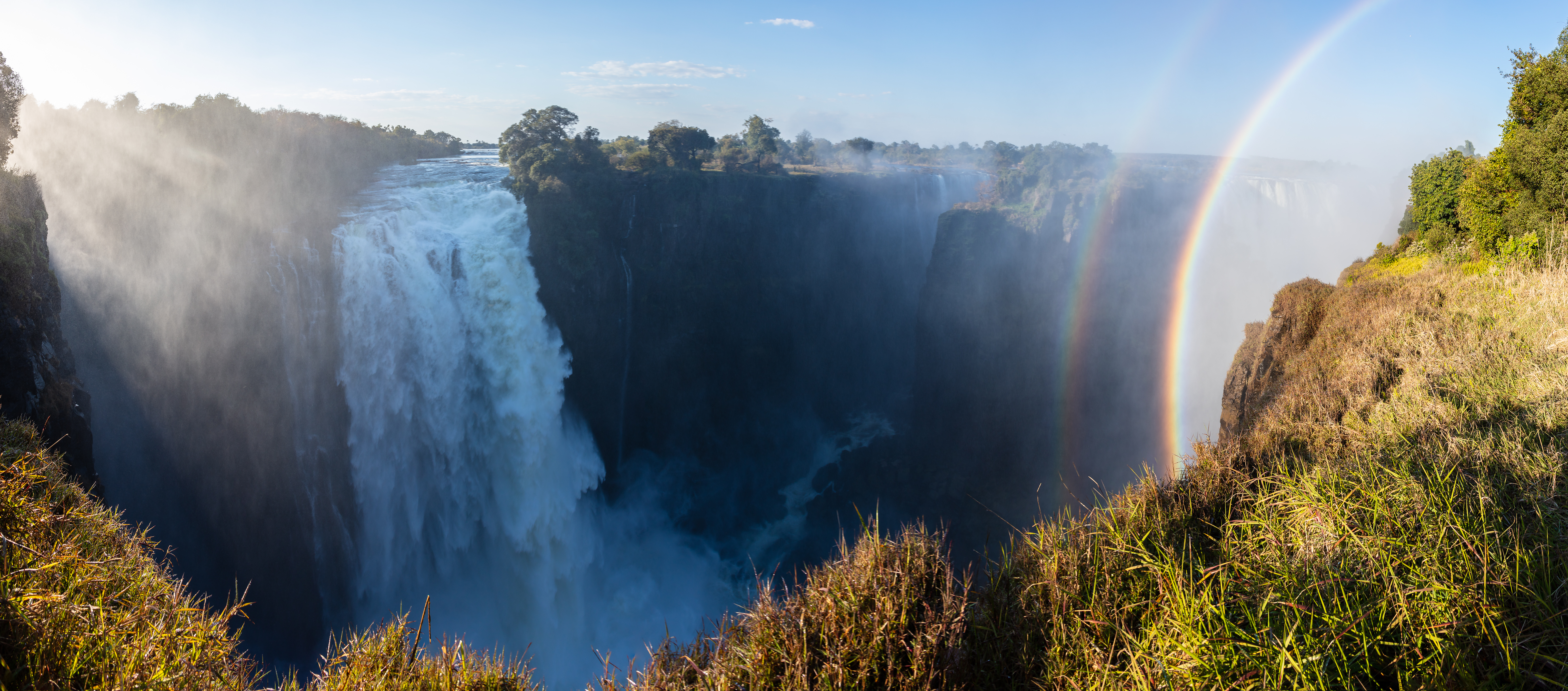 Victoria Falls, Zambia-Zimbabwe